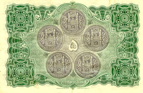 Five-rupee note from Hyderabad, labeled multilingually and dated Feb. 1, 1347 A.H. (1928/9) (downloaded Nov. 1999) "Hyderabad was the only state which had a full fledged paper currency which came into existence in 1916, and enjoyed wide circulation till 1952. The notes were printed till 1939 by Waterlow & Sons, and then onwards by the Security Press at Nasik. The notes are dated in "Fasli" years, an era which was current in the Deccan, associated closely with the Hijri era. The notes are printed entirely in Urdu and other languages which were current in the state, like Kannada, Telgu and Marathi. They are signed by the "Moin-ul-Mulam" or Finance Minister. Sir R.R.Clancey, Hyder Nawaz Jung, Fakhre-yar Jung are a few of the signatories." ( On the back of the same five-rupee note are five images of the Char Minar , the symbol of Hyderabad City. Probably this helped illiterate people to use the notes.